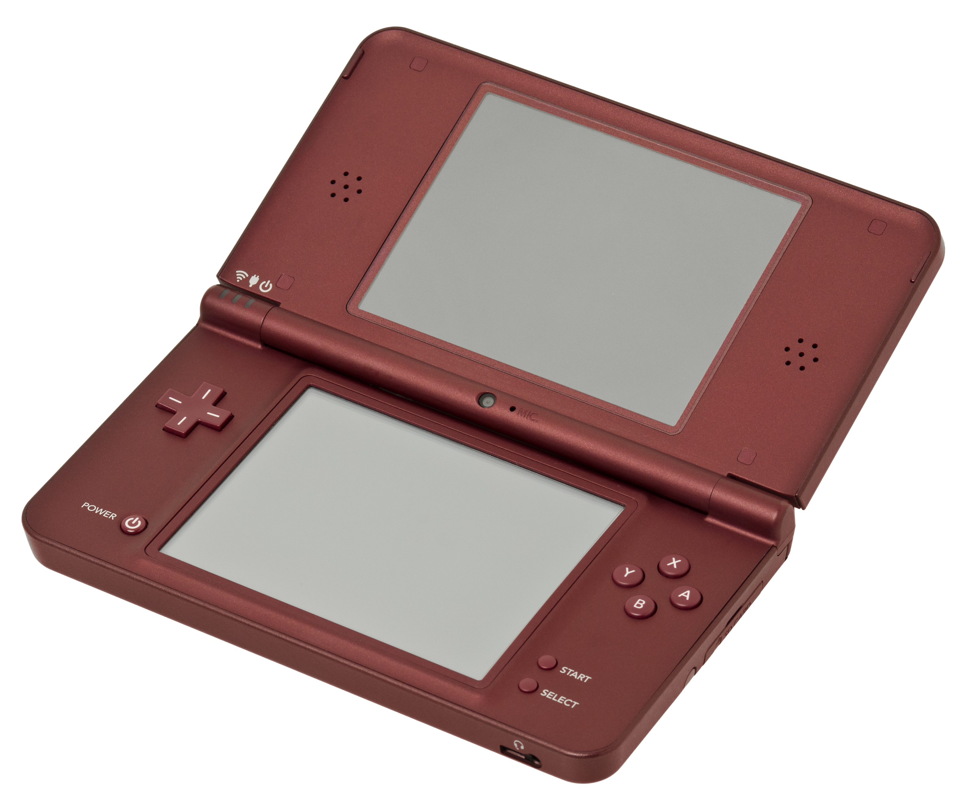 The Nintendo DSi XL in burgundy.